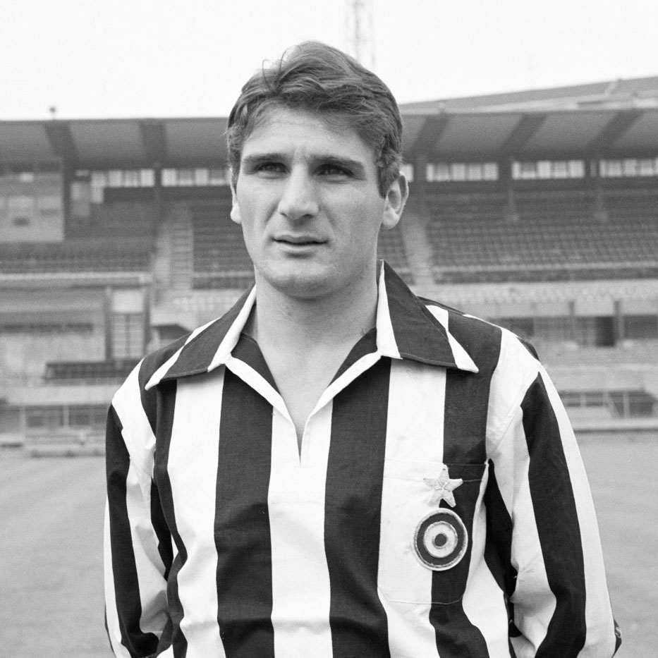 Italian footballer Gianfranco Leoncini with Juventus F.C. in the 1965–66 season, posing inside the Communal Stadium in Turin, Italy.